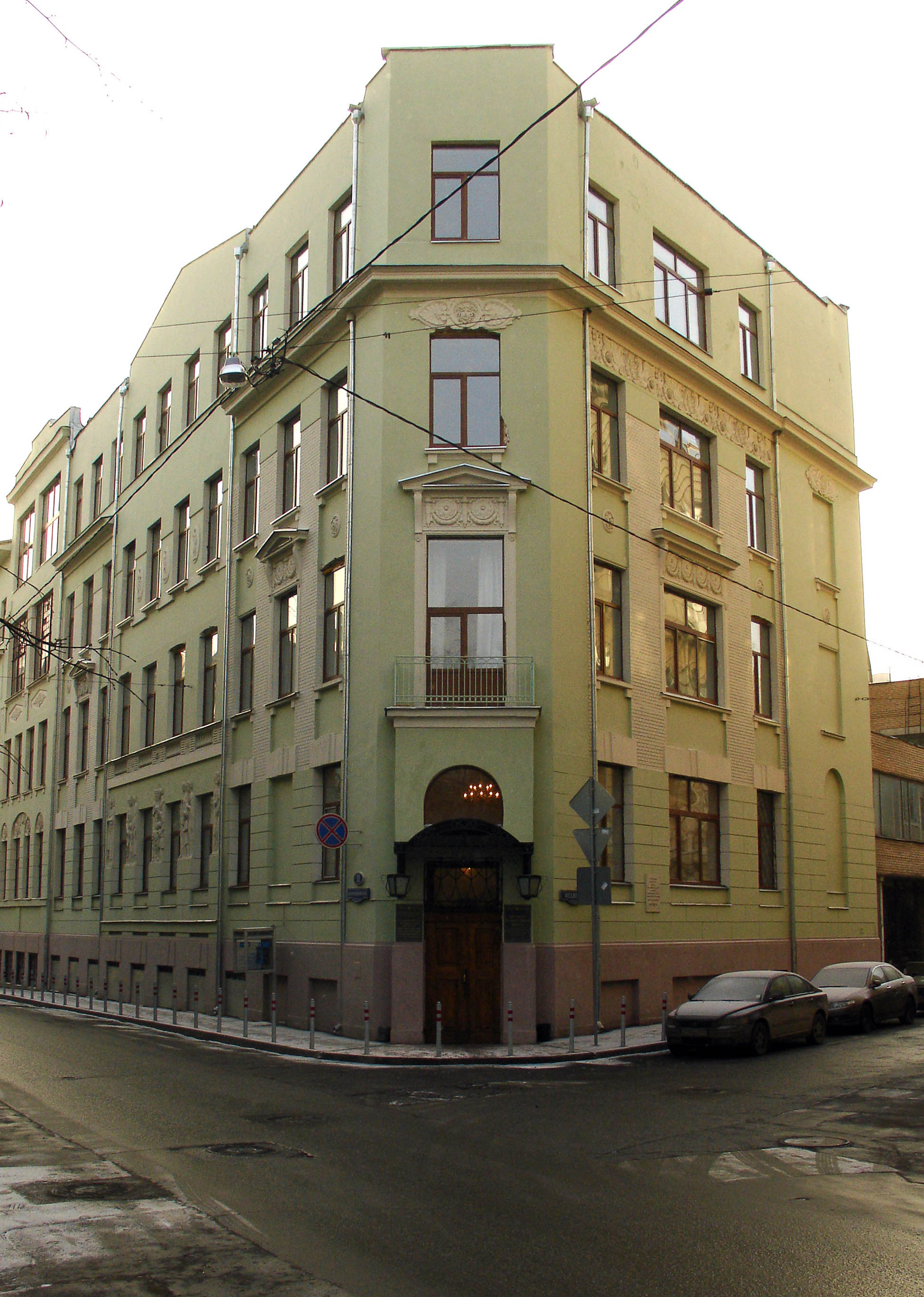 Merzlyakovsky Lane, Moscow. Musical college based in old Flerov's private school